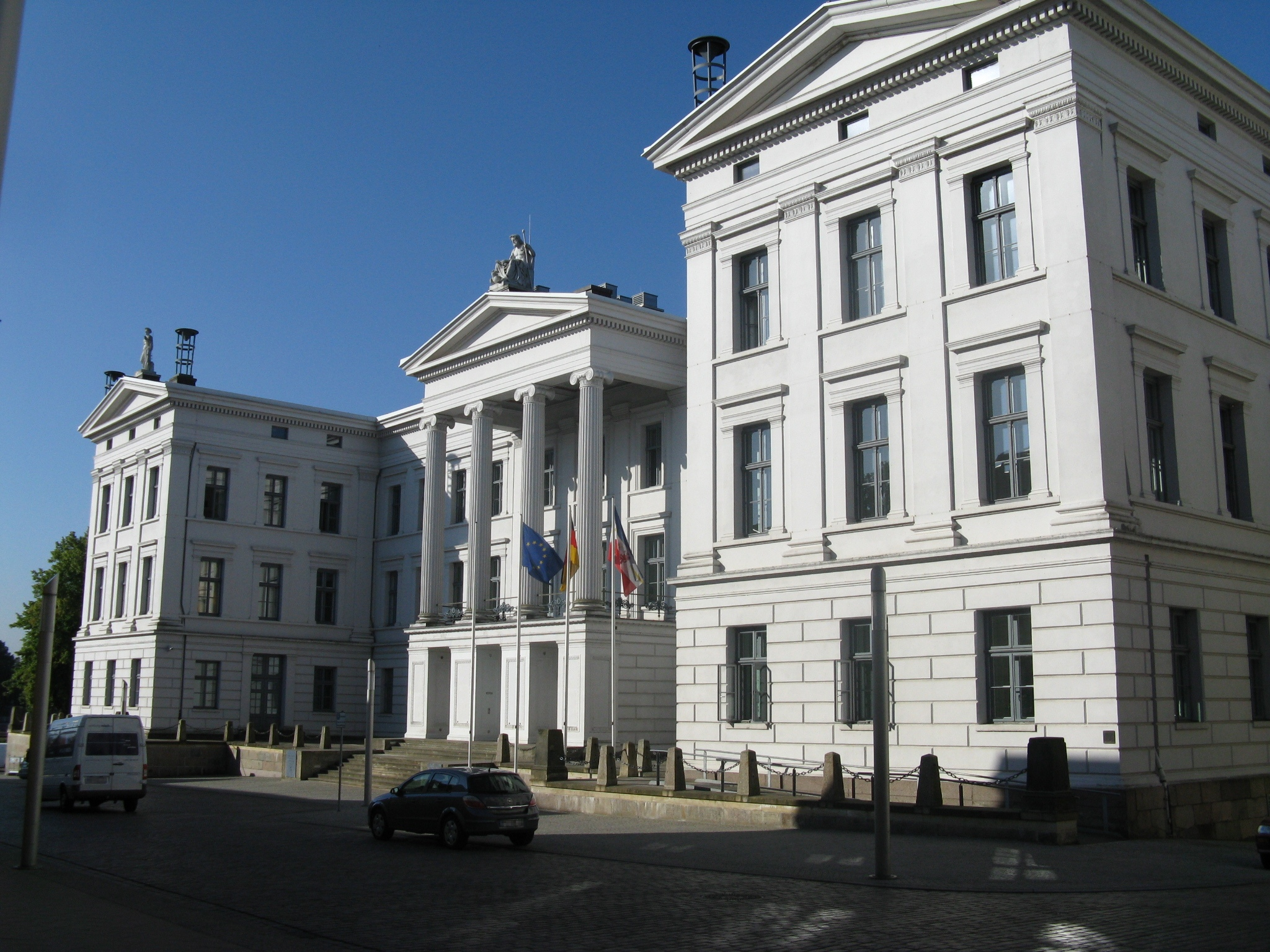 Staatskanzlei in Schwerin, Germany